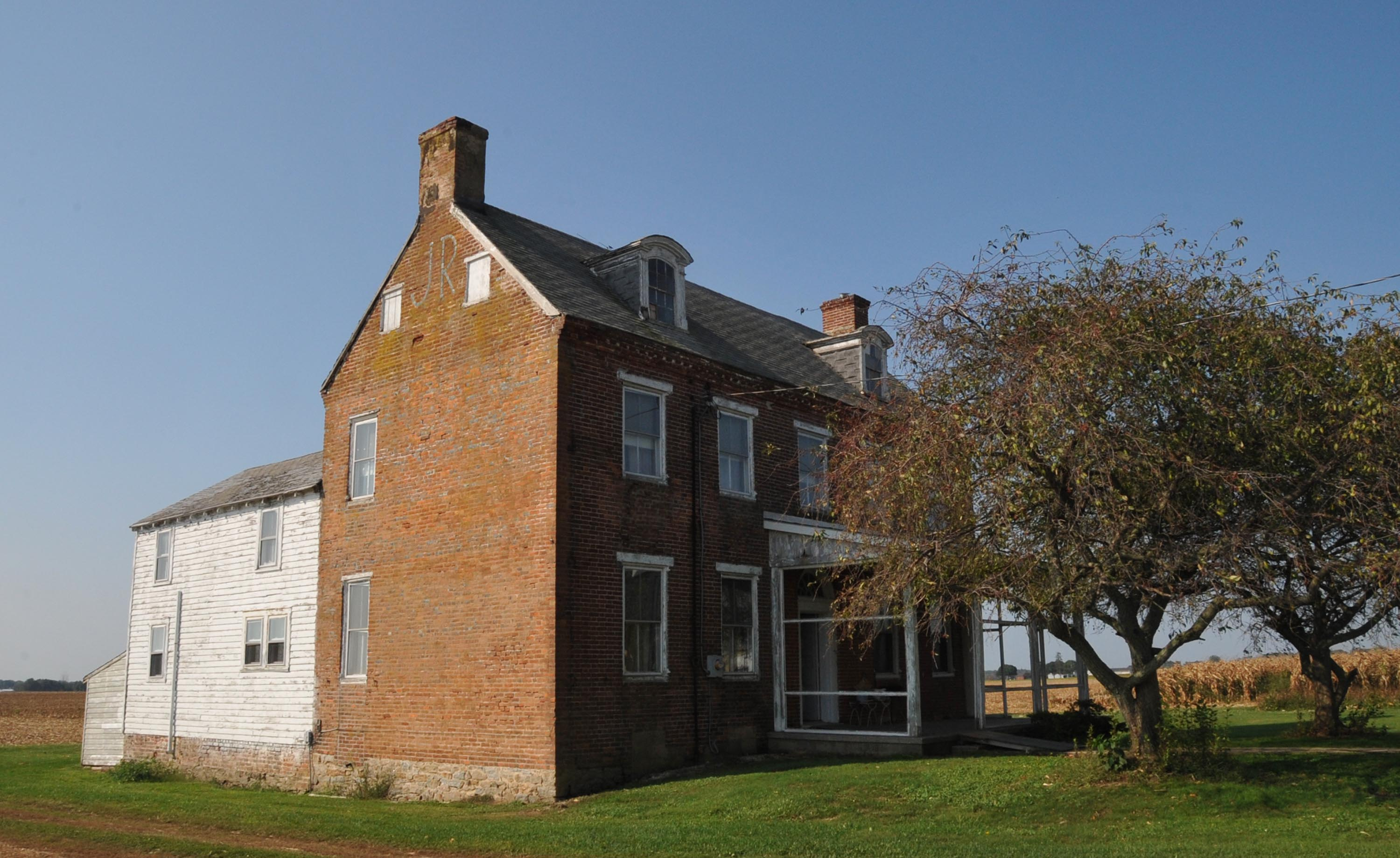 Raymond Neck Historic DistrictTHIS IS THE JOHN RAYMOND HOUSE CIRCA 1830. ONE OF THREE HOUSES WHICH COMPRISE THE HISTORIC DISTRICT